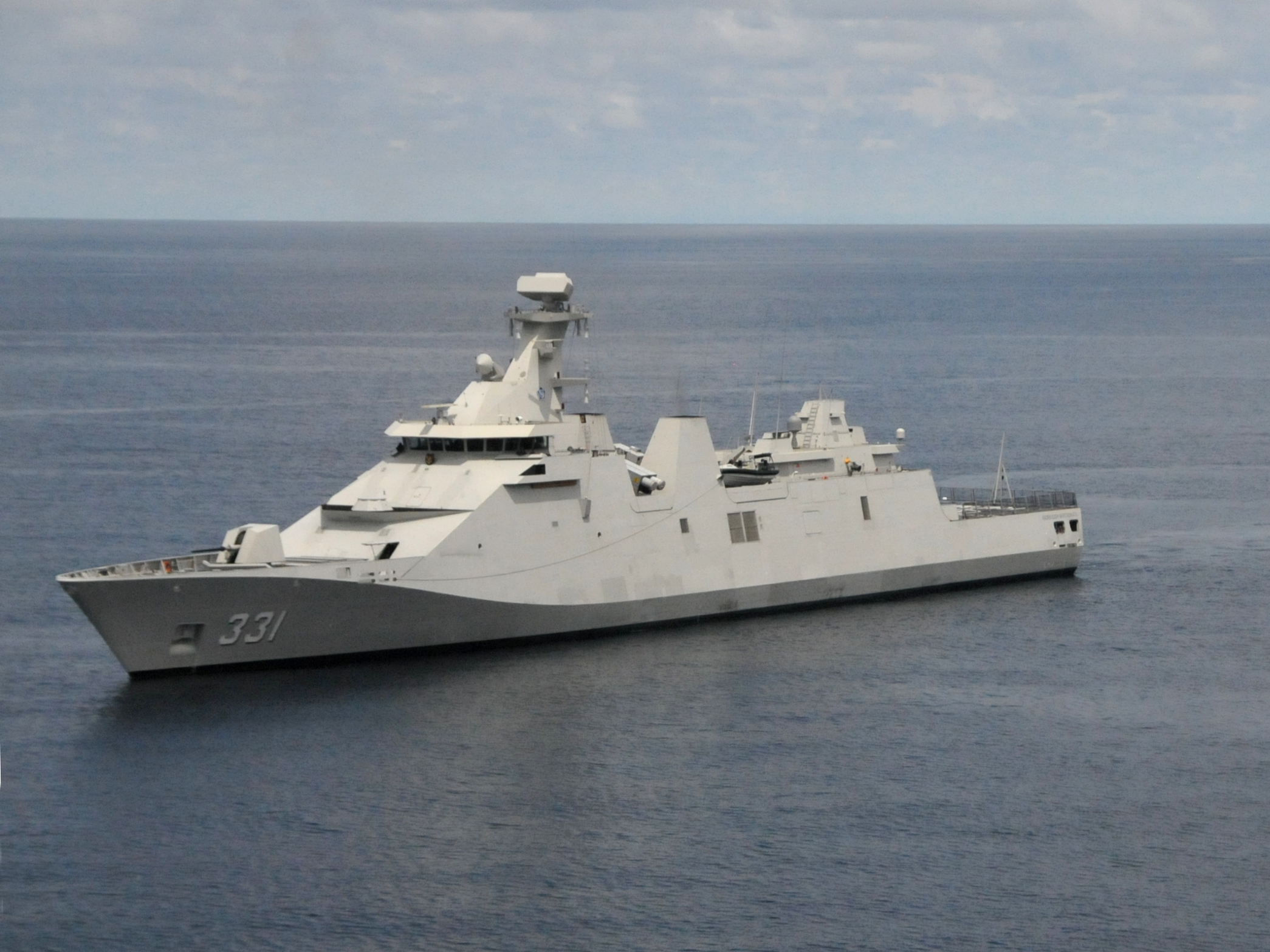 The Indonesian Navy frigate KRI Raden Eddy Martadinata (331) prepares to receive fuel from the U.S. Military Sealift Command fleet replenishment oiler USNS Rappahannock (T-AO-204), not visible, during an underway replenishment in the South China Sea on 21 May 2018.